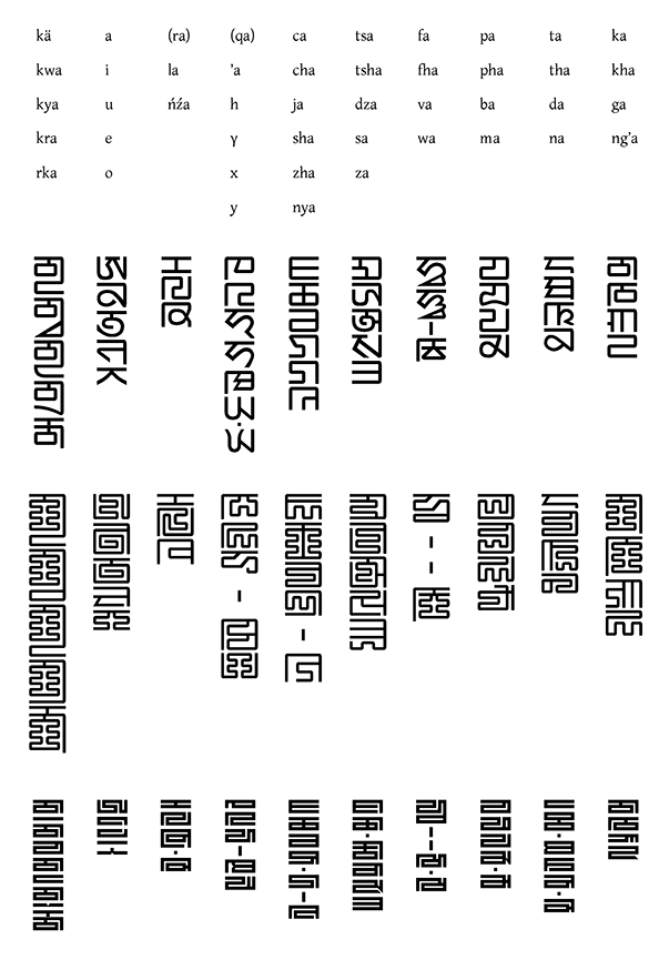 The Phagspa script, with consonants arranged according to Chinese phonology. Top: Approximate values in Middle Chinese. (Letters in parentheses were not used for Chinese.) Second: Standard letter forms. Third: Seal script forms. (A few letters, marked by hyphens, are not distinct from the previous one.) Bottom: The "Tibetan" forms. (Several letters have variant forms, separated by a · bullet.)